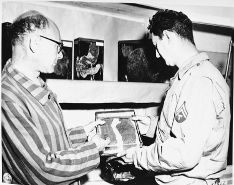 A guide shows jars containing human organs removed from prisoners in Buchenwald to Jack Levine, an American soldier .